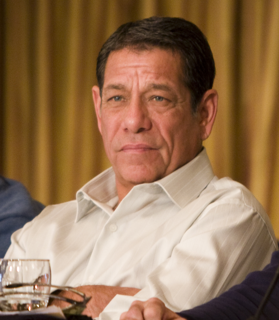 Chicago Cubs hitting coach at Rudy Jaramillo at the 2011 Cubs Convention.